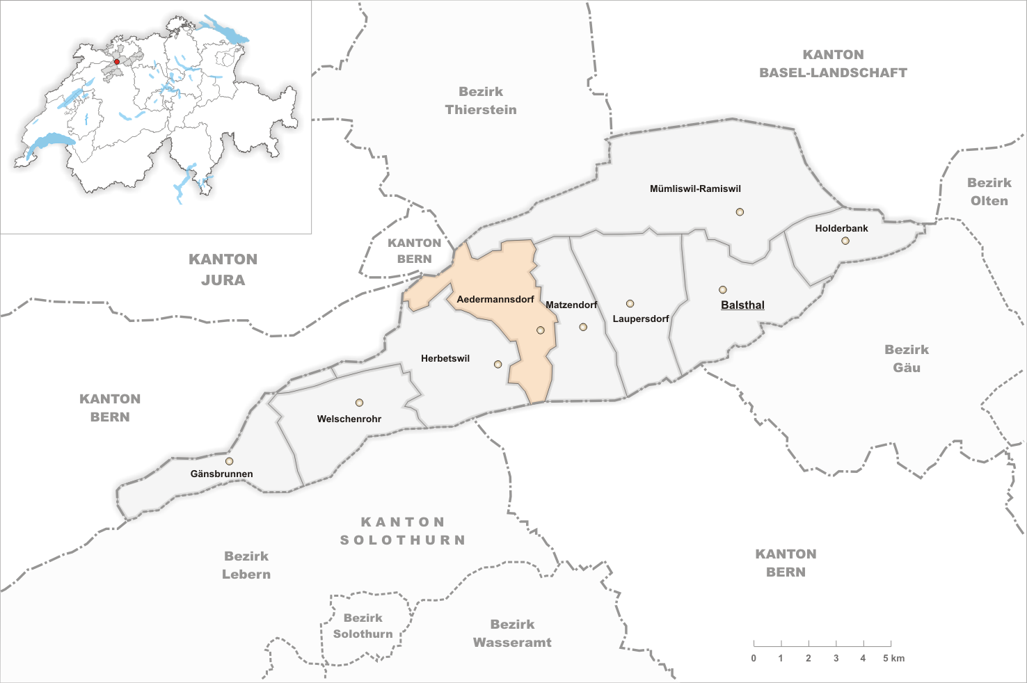 Municipality Aedermannsdorf